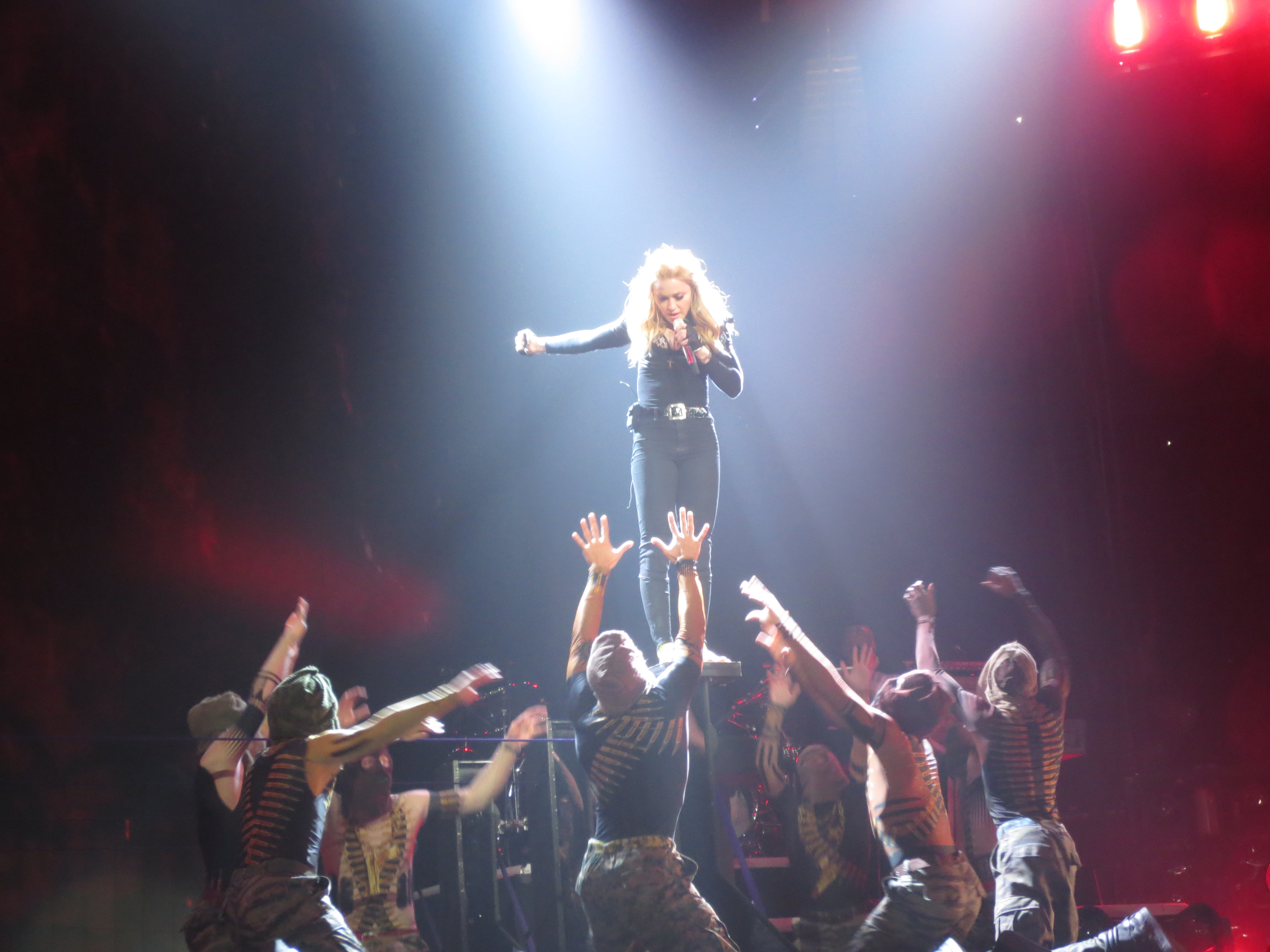 012 10-25 MDNA Madonna Houston (117)